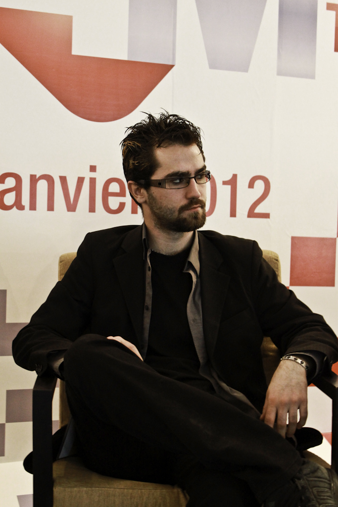 Paul da Silva at the 4M Tunis conference in January 2012.